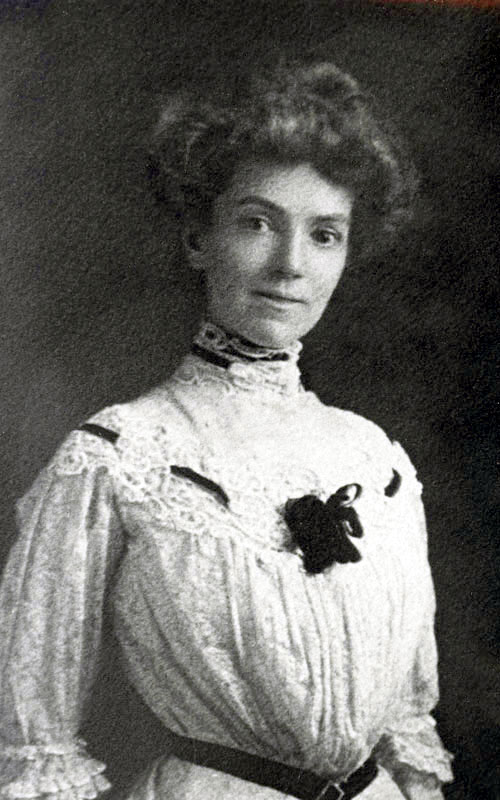 Anna B. Eckstein (14 June 1868 - 16 October 1947) was a German champion of world peace, who trained as a teacher and spread her pacifist work across the whole world. MAYBE 1907